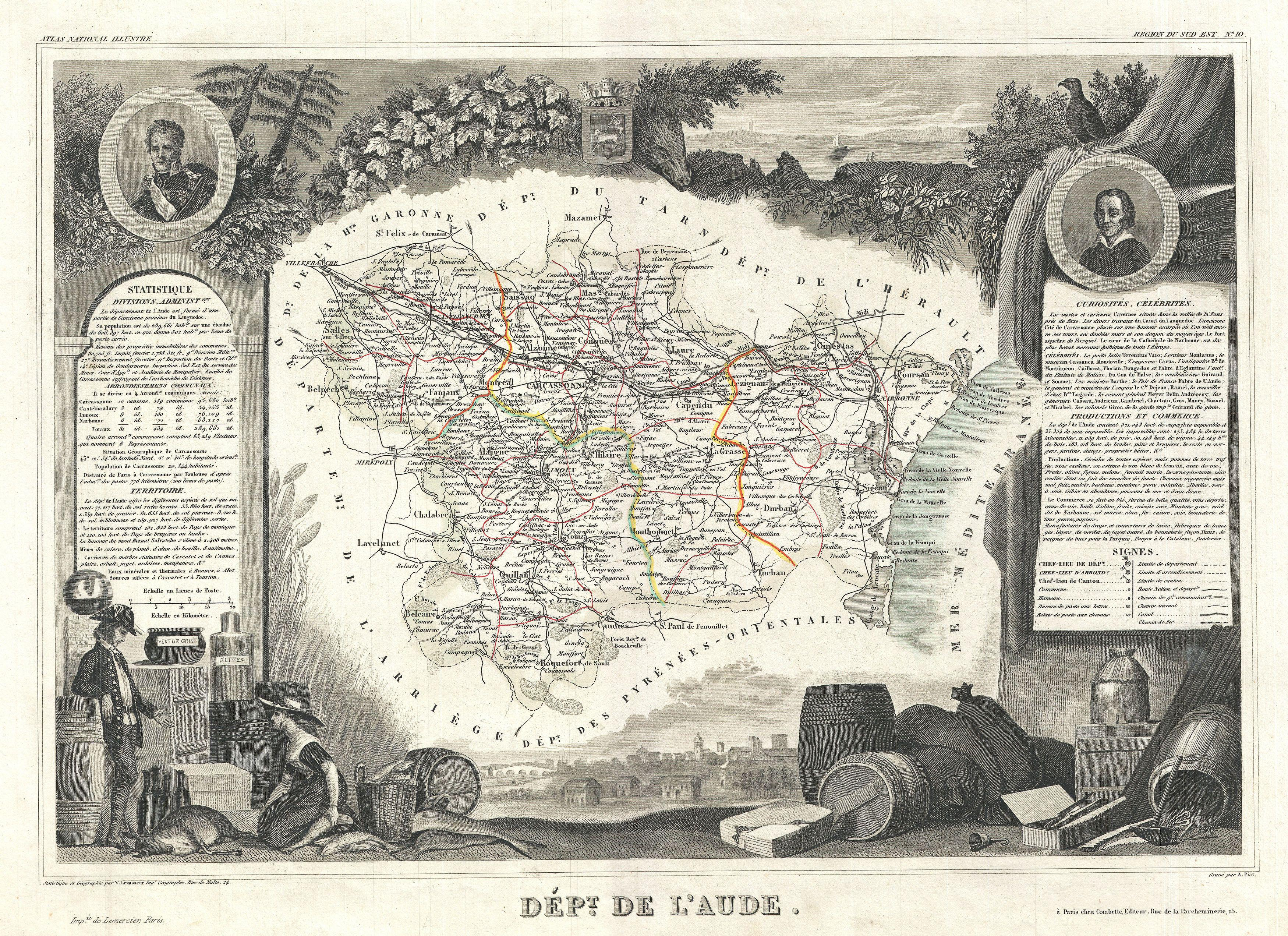 This is a fascinating 1857 map of the French department of Aude, France. This area of France is famous for its wide variety of vineyards and wine production. In the east are the wines of Corbieres and la Clape, in the center are Minervois and Côtes de Malpeyre, and in the south, blanquette de Limoux. The whole is surrounded by elaborate decorative engravings designed to illustrate both the natural beauty and trade richness of the land. There is a short textual history of the regions depicted on both the left and right sides of the map. Published by V. Levasseur in the 1852 edition of his Atlas National de la France Illustree.